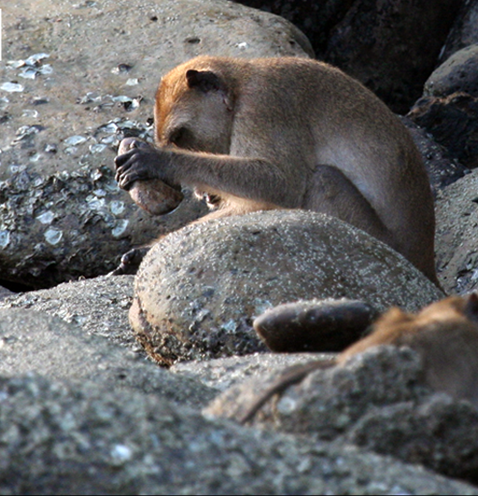 Macaca fascicularis aurea using a stone tool. Photo by Michael D. Gumert. Cropped from which is also available at File:Macaca fascicularis aurea stone tools - journal.pone.0072872.g002.png.